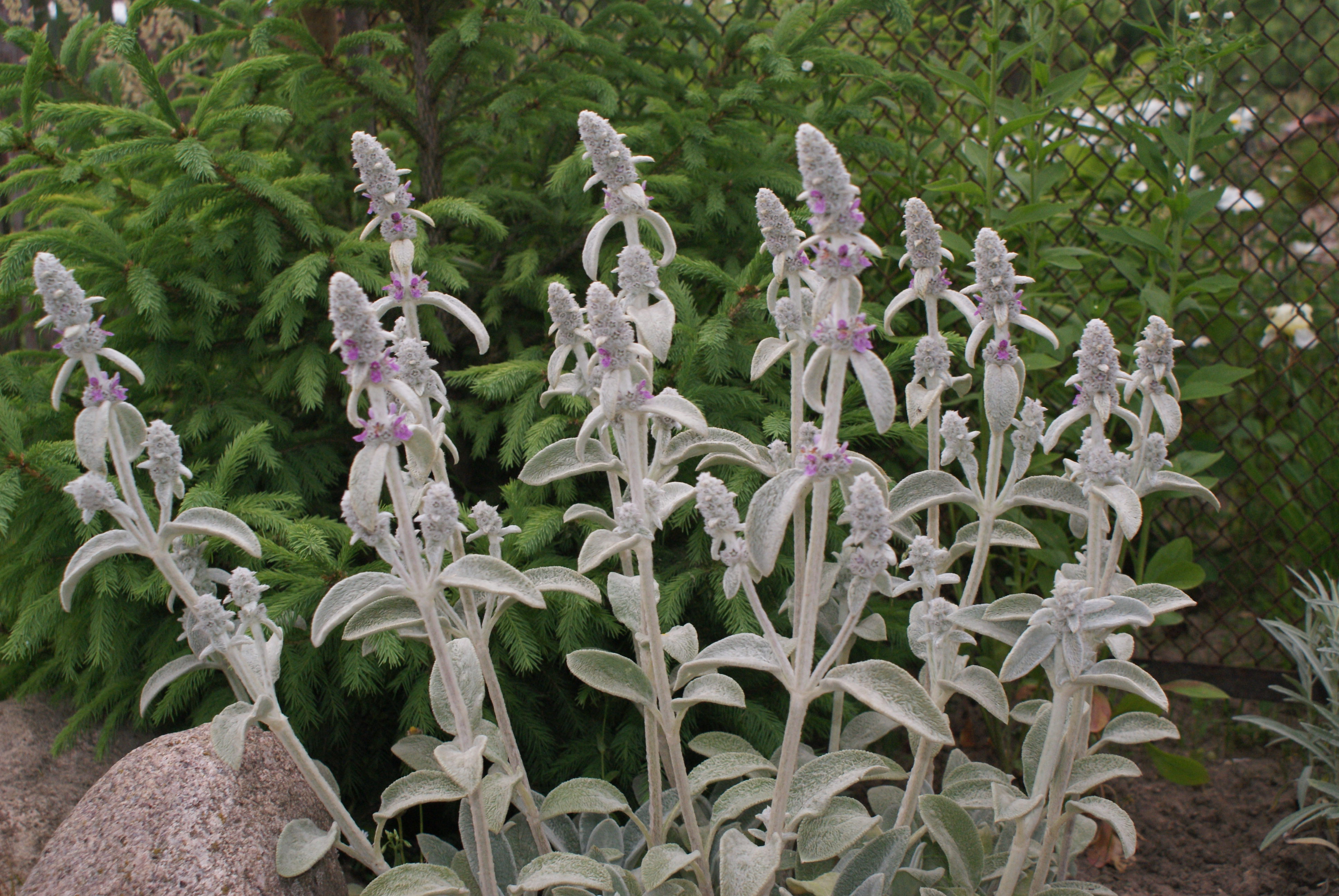 Unidentified Flower (Belarus)